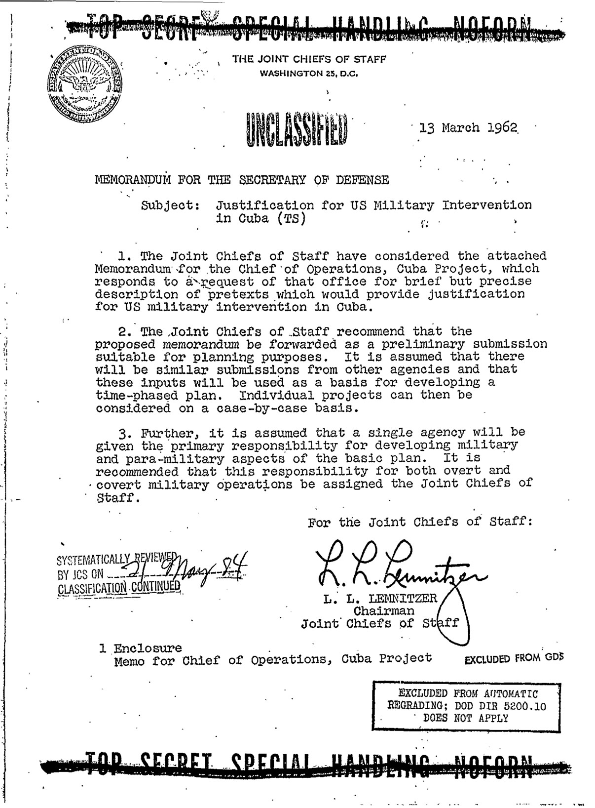 Actual photo of the Northwoods Memorandum for the U.S. Secretary of Defense (March 13, 1962) titled: "Justification for U.S. Military Intervention in Cuba (TS)". Taken from: Improved versions: this 1st page: image:NorthwoodsMemorandum.png 8th page: image:NorthwoodsMemorandum8.png